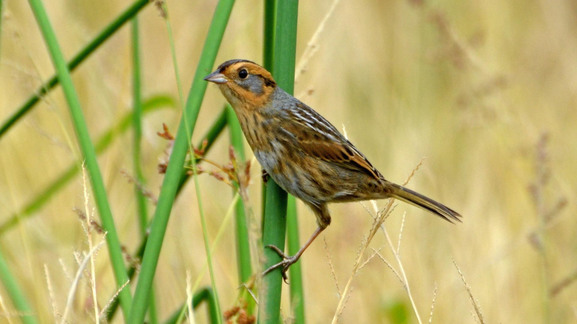 Riverlands Migratory Bird Sanctuary in Alton Missouri on 10/12/13 It felt great to be out in the tall grasses with the Nelson's visiting and on their way south - and the Le Conte's mixed in.